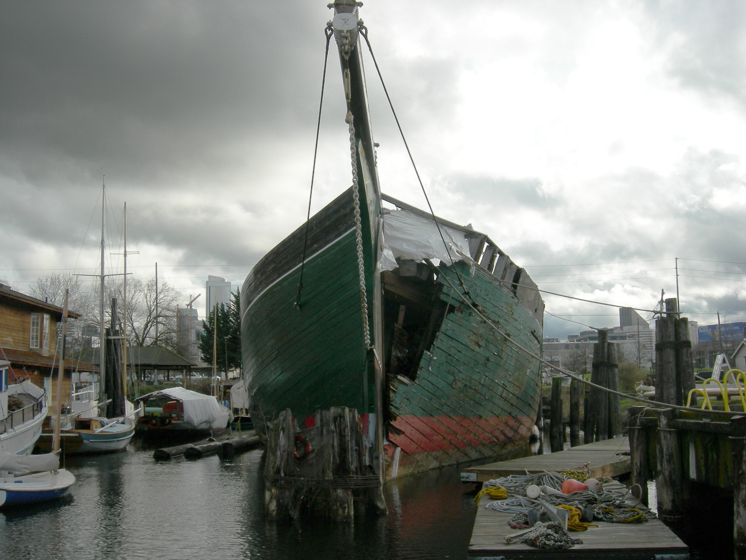 The Schooner Wawona, Northwest Seaport, Seattle, Washington. The boat is on the National Register of Historic Places. At left, adjacent to Northwest Seaport, is the Center for Wooden Boats.